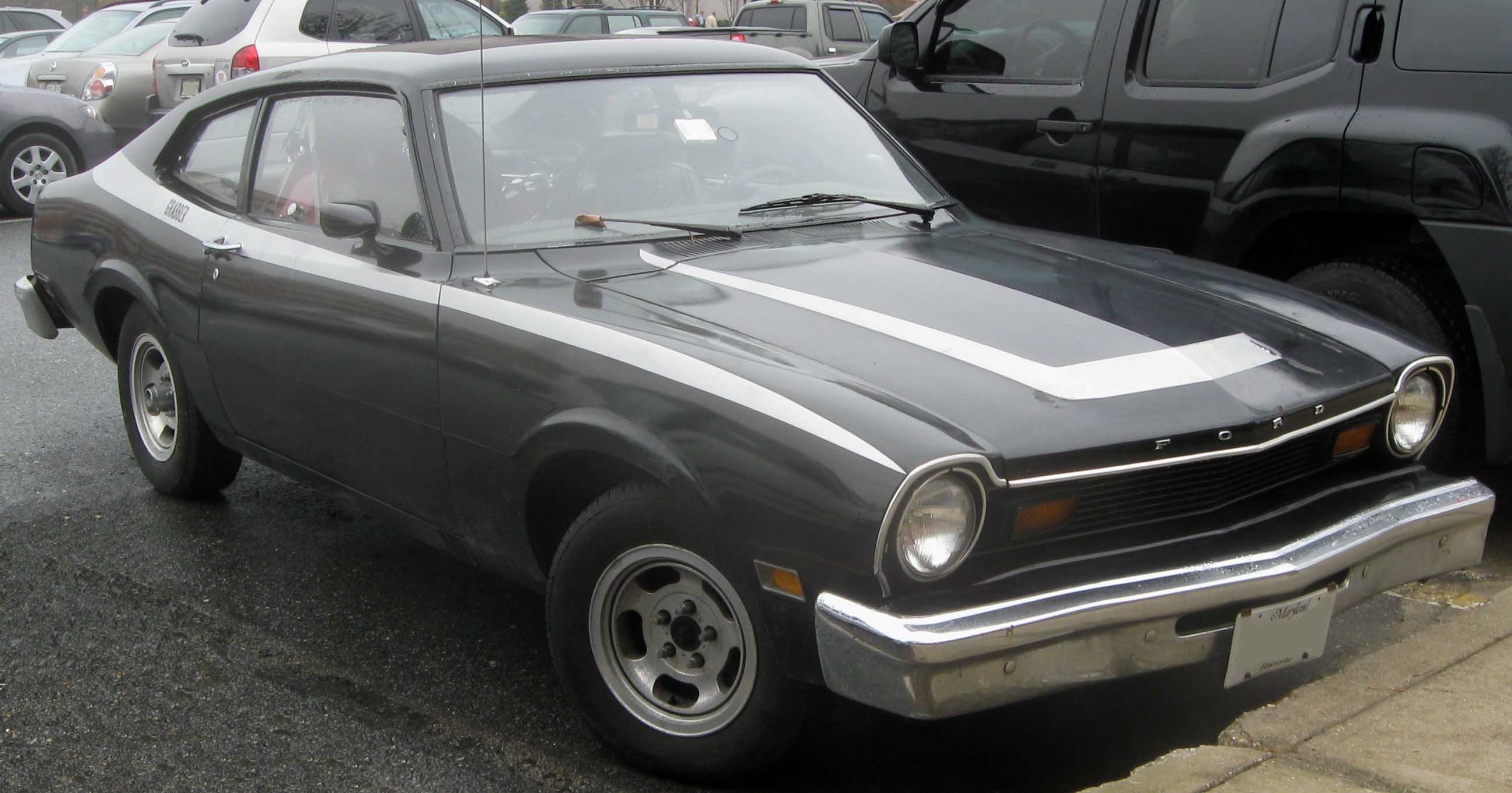 Ford Maverick photographed in College Park, Maryland, USA.